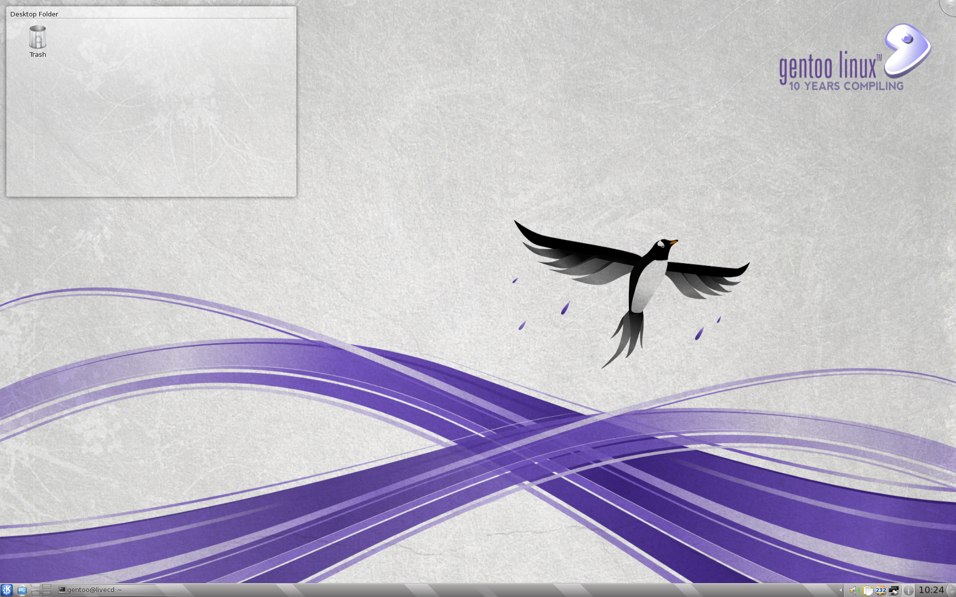 Default KDE 4 screen of the Gentoo Linux 10.0 LiveDVD